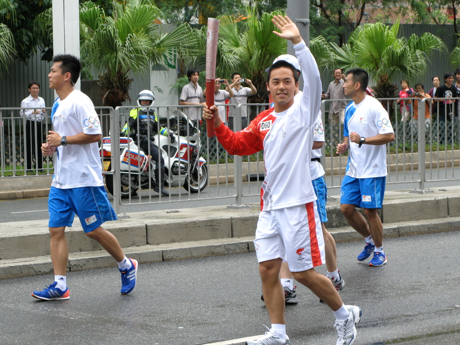 HK Olympic Torch Relay Member :Yu Sum-yee